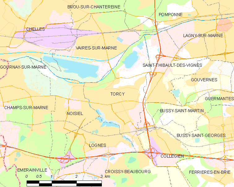 Map of French municipality Torcy